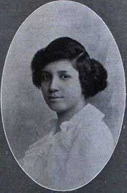 Euphemia Haynes at Smith College year book photo